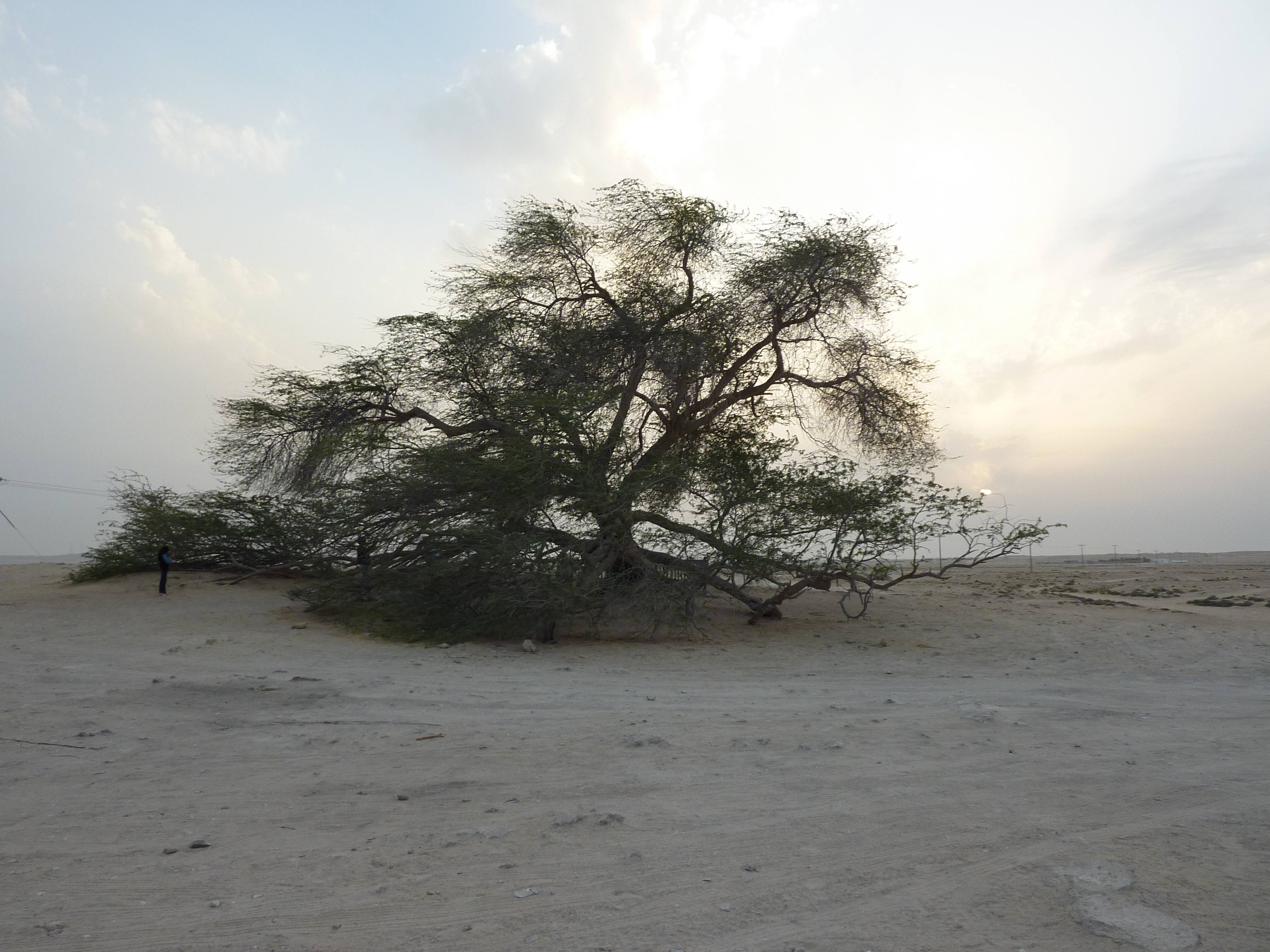 The Tree of Life has survived for 100s of years in Bahrain. No one has been able to explain why the tree flourishes in the desert with little water especially since there is little other life in the area.